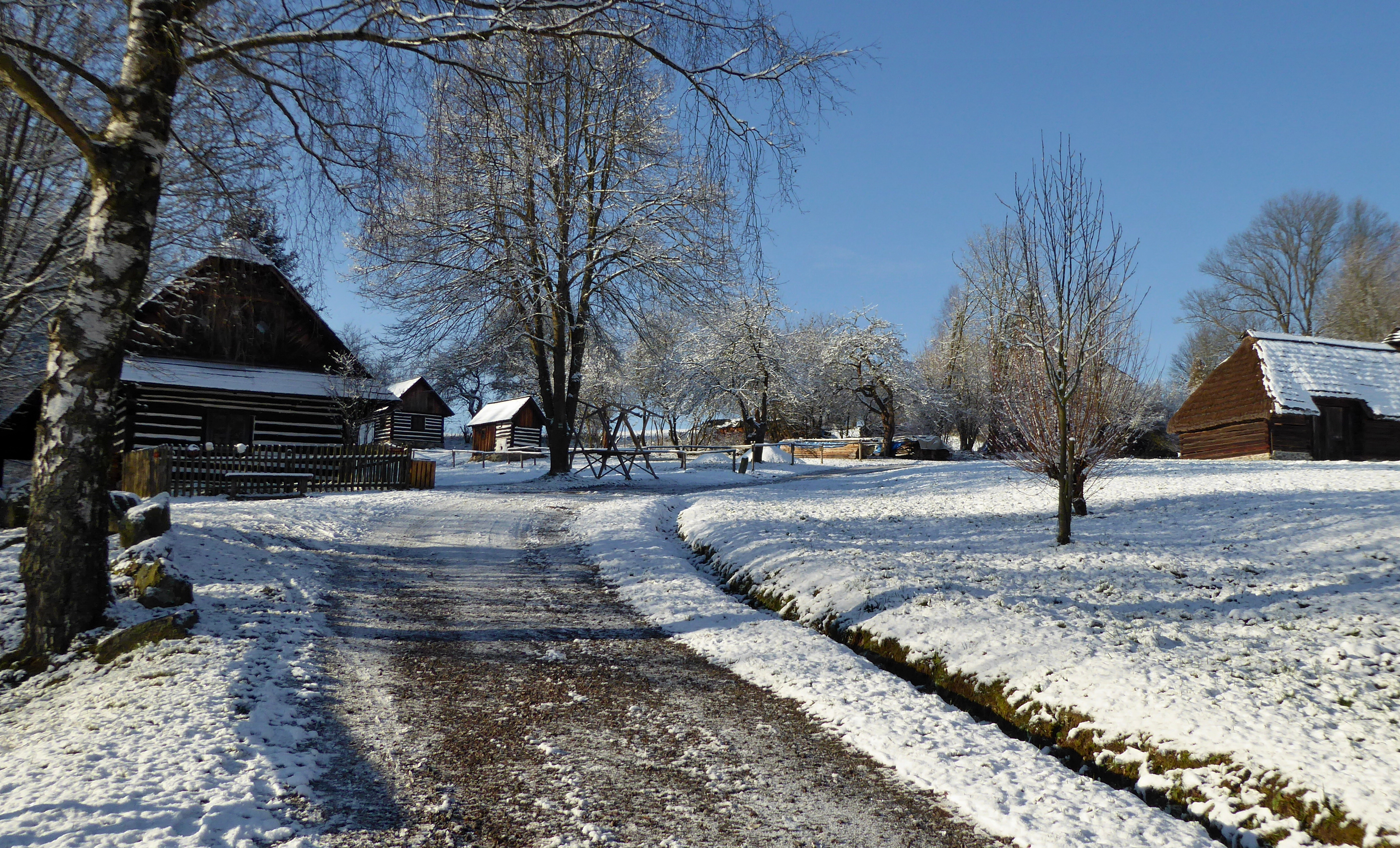 In the hillside of hill with a geographical name "Na Veselém kopci" (top 579 m above sea level) in Stružinecká knoll land (geomorphological district) lies exposition Veselý Kopec, a part of the Open-air Museum Vysočina (the exposition formerly a part of Set of folk buildings Highland). In the natura area there is a green marked tourist route, in section: the signpost Pod Veselým Kopcem – Dřevíkov. From the confluence of the Dlouhý brook with the river Chrudimka the way is on a rather steep slope. The public way is open all year.To exposition entrance only to tickets. The exposition is open in the season (from April to October) and during the events and exhibitions held. The site is an important film location. In the locality was they shot scenes of historical films, fairy tales and folk architecture documents. Photo location: Czechia, Pardubice Region, village Vysočina, Veselý Kopec – small hamlet and exposition of Open-air Museum Vysočina. External links: Veselý Kopec, exposition of Open-air Museum Vysočina – website see Tourist map - composition Veselý Kopec, aerial view see